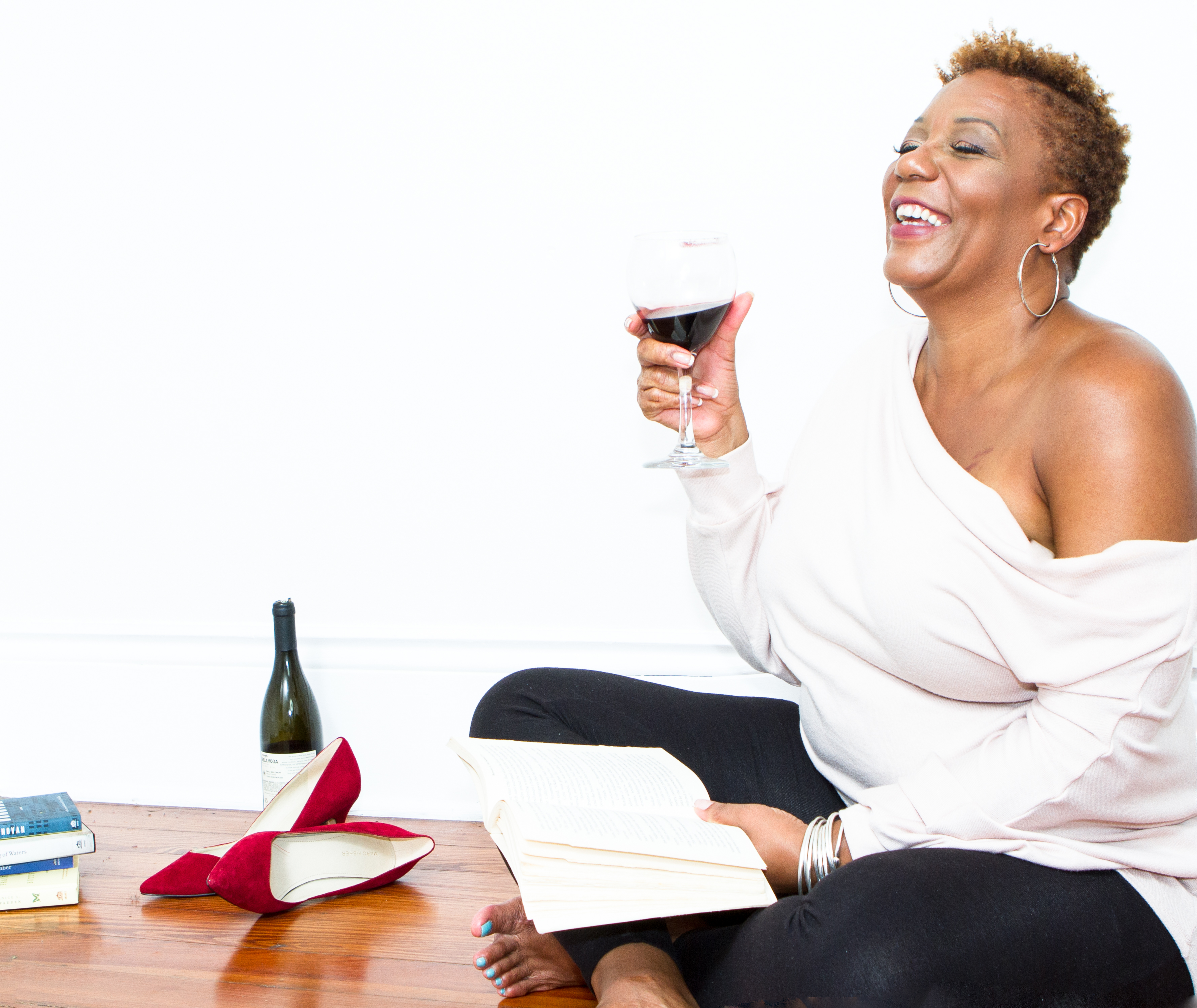 headshot